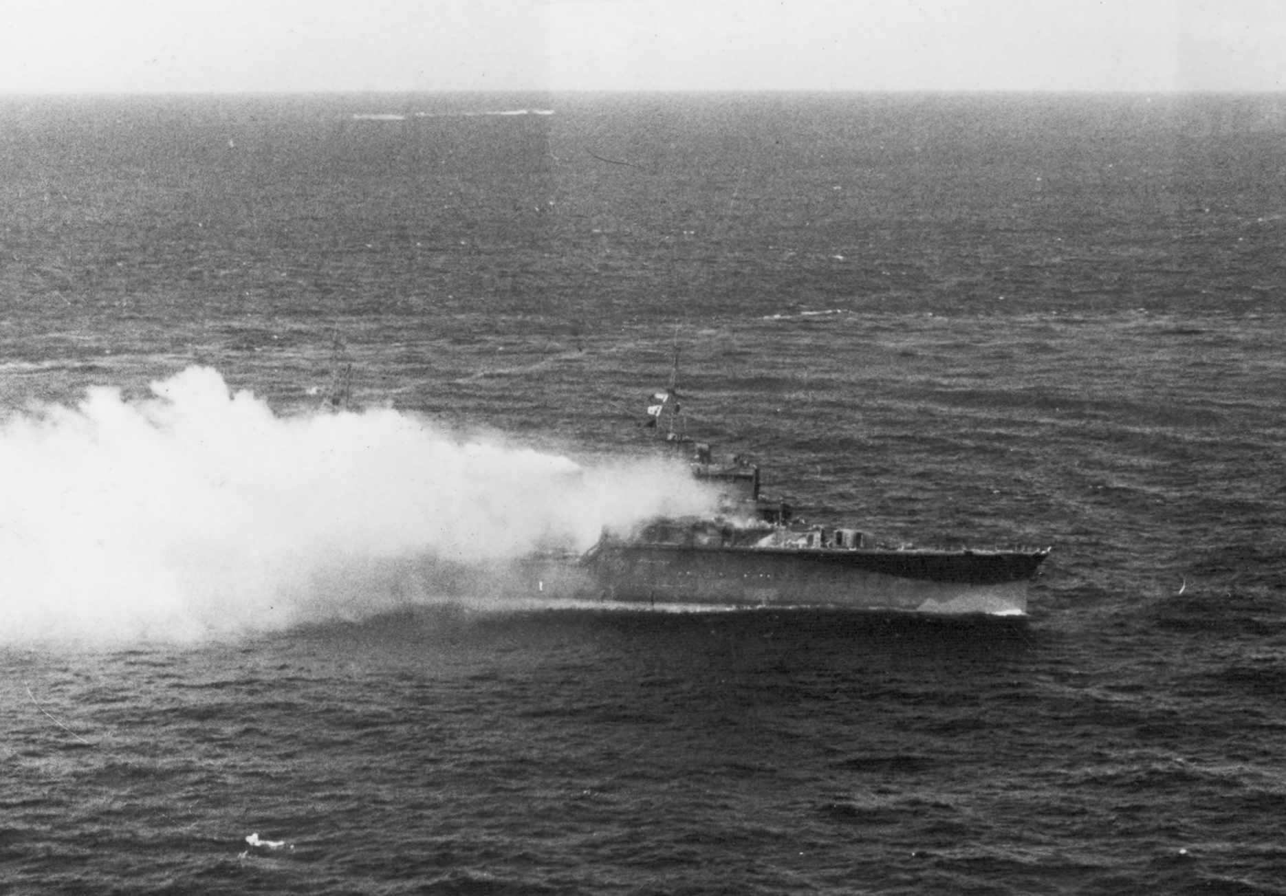 The Japanese light cruiser Katori burning off Truk, after having been damaged by U.S. Navy aircraft. It was later sunk by gunfire from USS New Orleans (CA-32), USS Minneapolis (CA-36), and torpedoes from USS Radford (DD-446) and USS Burns (DD-588) 74 km north-west of Truk (07.45N, 151.20E).